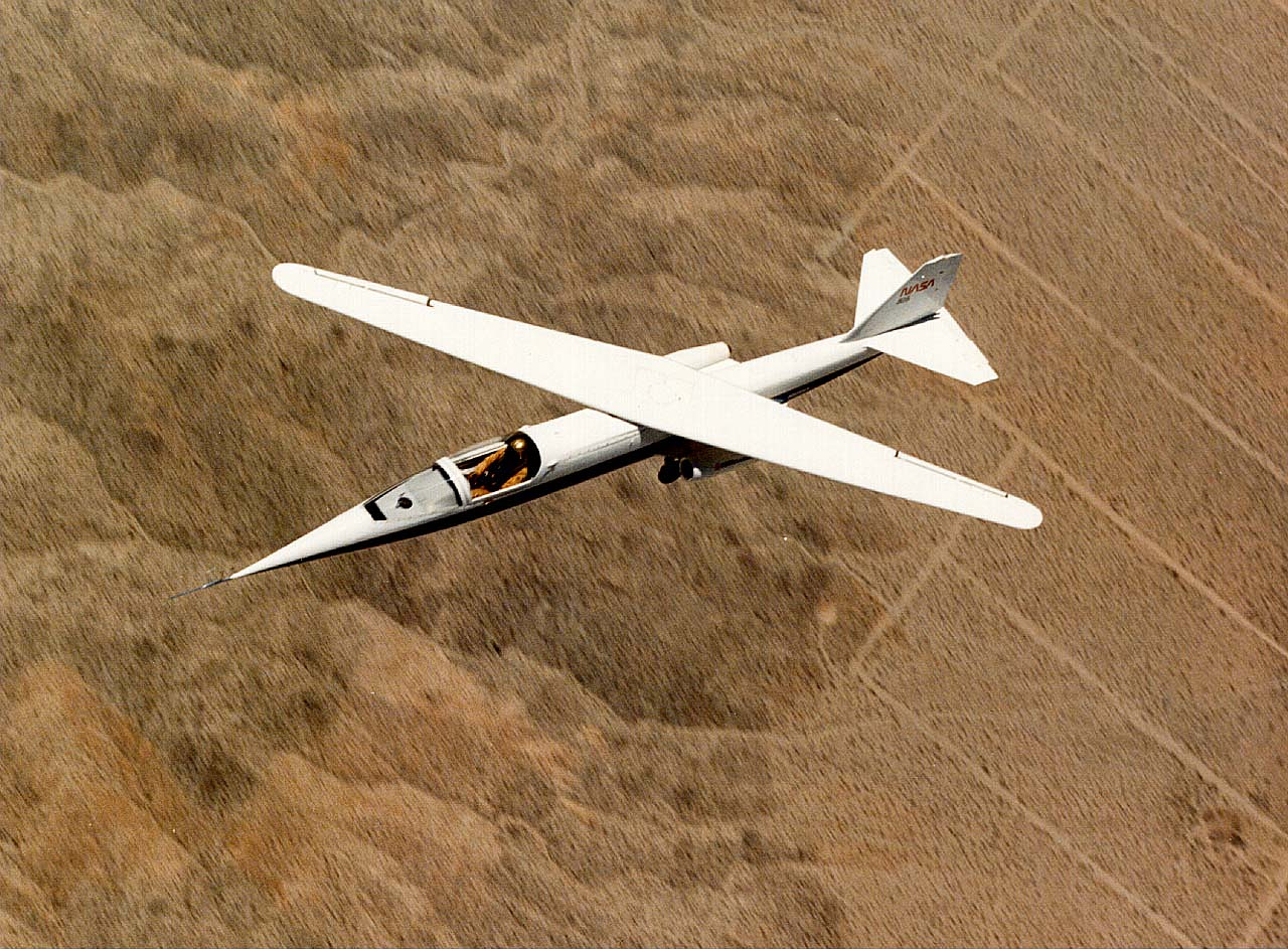 The AD-1 aircraft in flight with its wing swept at 60 degrees, the maximum sweep angle.